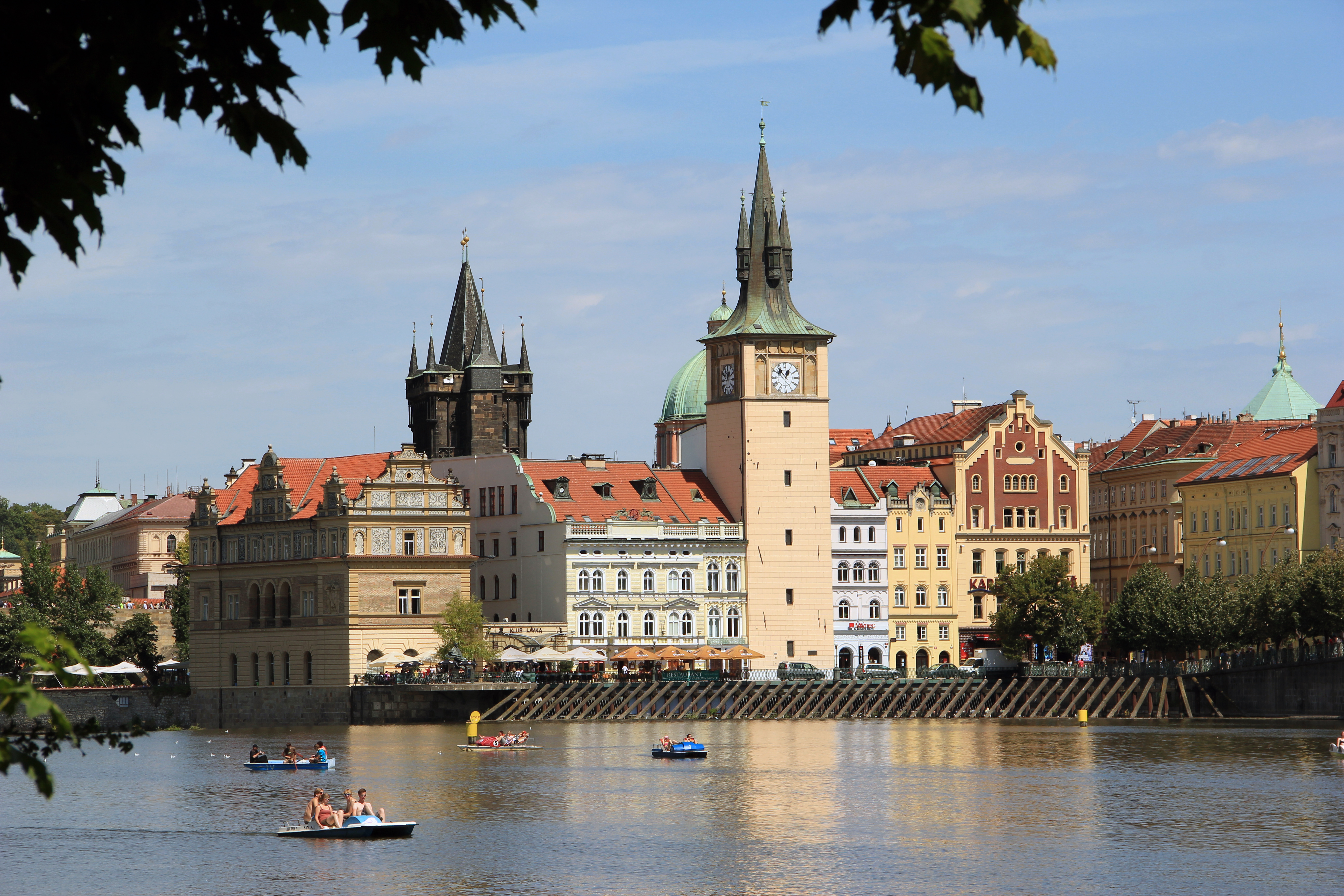 Old Town